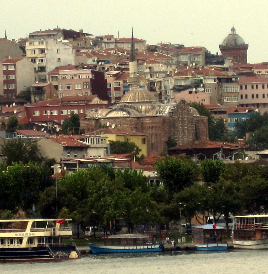 Gül Camii, a former Byzantine church of unknown identity, seen from the Atatürk Bridge. Golden Horn, Istanbul, Turkey.